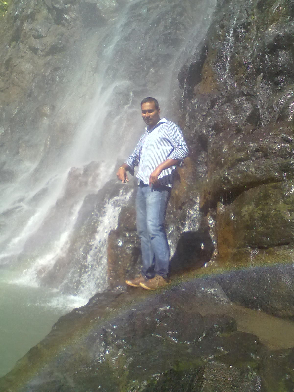 scenic beauty of khandadhar